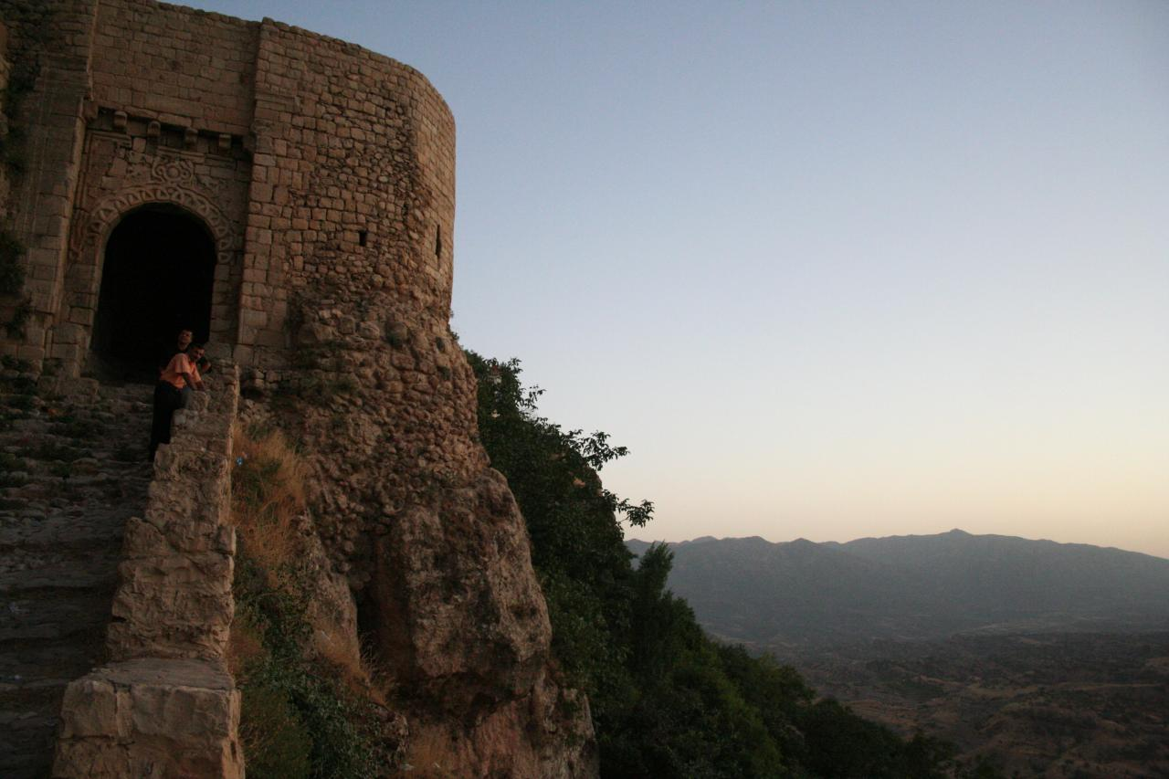 Badinan Gate in Amedia, Iraq Republic - Region of Kurdistan